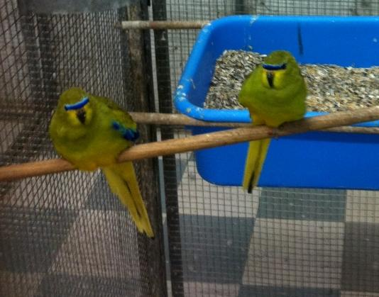 Elegant Parrot (Neophema elegans)